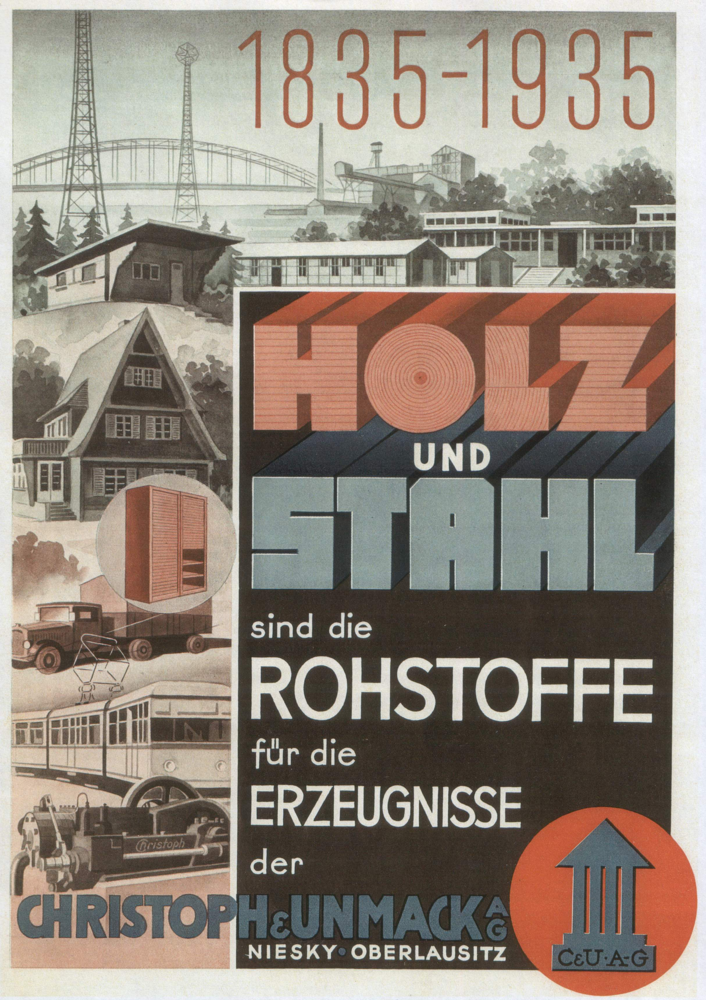 Advertising for Christoph & Unmack (Niesky), by Friedrich Kurt Fiedler